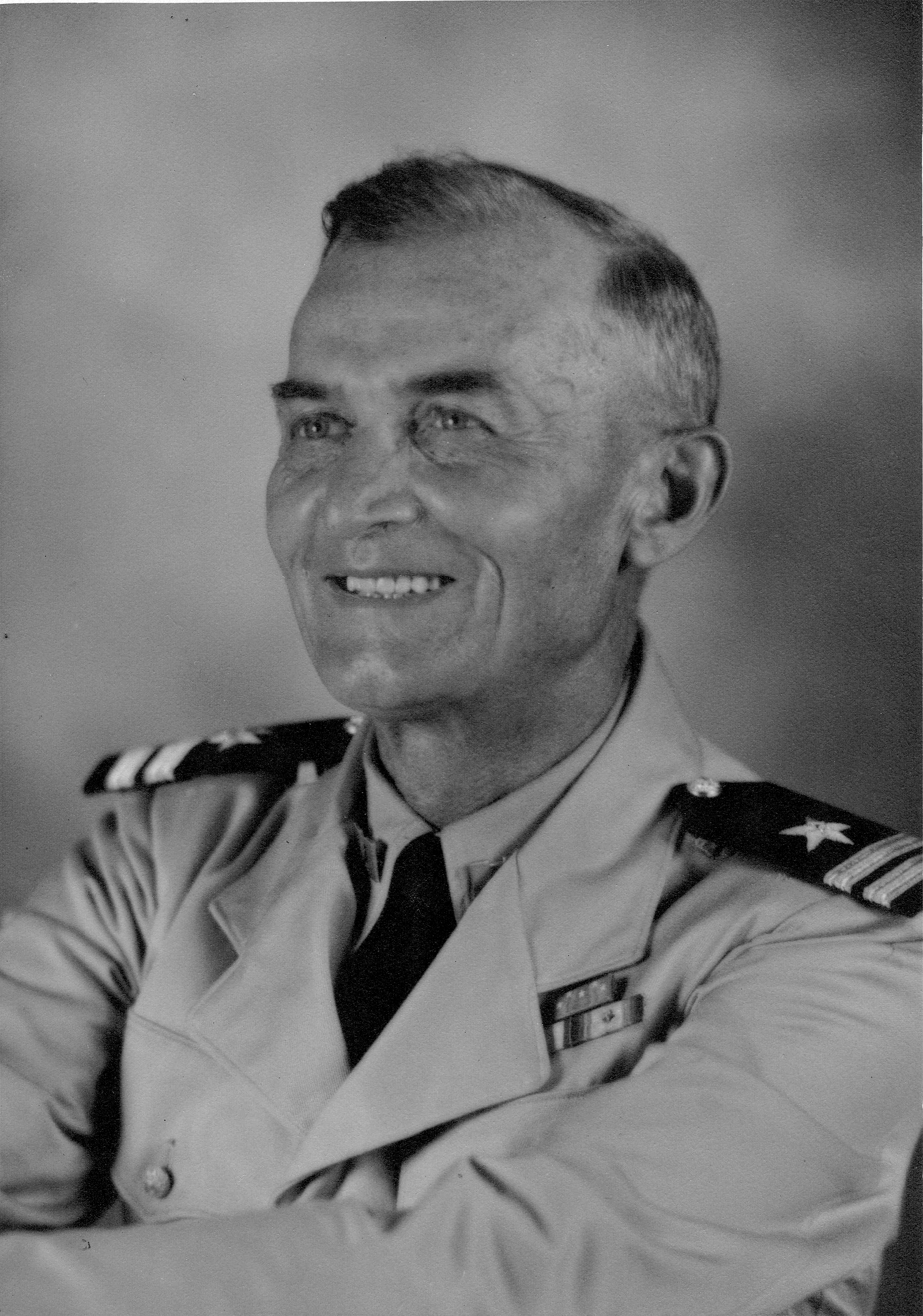 Grampa